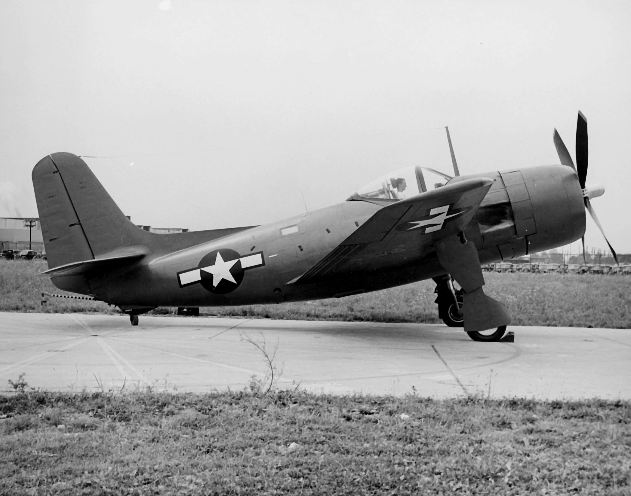 A U.S. Navy Curtiss XBT2C-1 on the ground. Note the fuselage door and window of cockpit for second crewman in the aircraft. Though similar in appearance to its XBTC predecessor, the ten XBT2C-1 aircraft featured a smaller 2,000 hp Wright R-3350-24 engine with a standard propeller and a place for a second crewman in the fuselage. Additionally, the aircraft was equipped with an internal bomb bay, giving it the capability of carrying up to 1,800 kg of ordnance. Ordered on 27 March 1945, well after the XBTC, the XBT2C nevertheless flew before its predecessor. Only nine of the ten examples of the aircraft ordered by the Navy were actually delivered, the last appearing in October 1946.